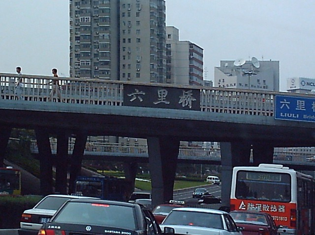 Liuliqiao in Beijing. Taken by Wikipedian DF08 in July 2004.